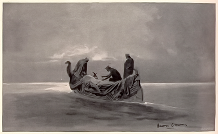 Hawes Craven's scene painting for Suvenir of King Arthur, presented at the Lyceum Theatre.